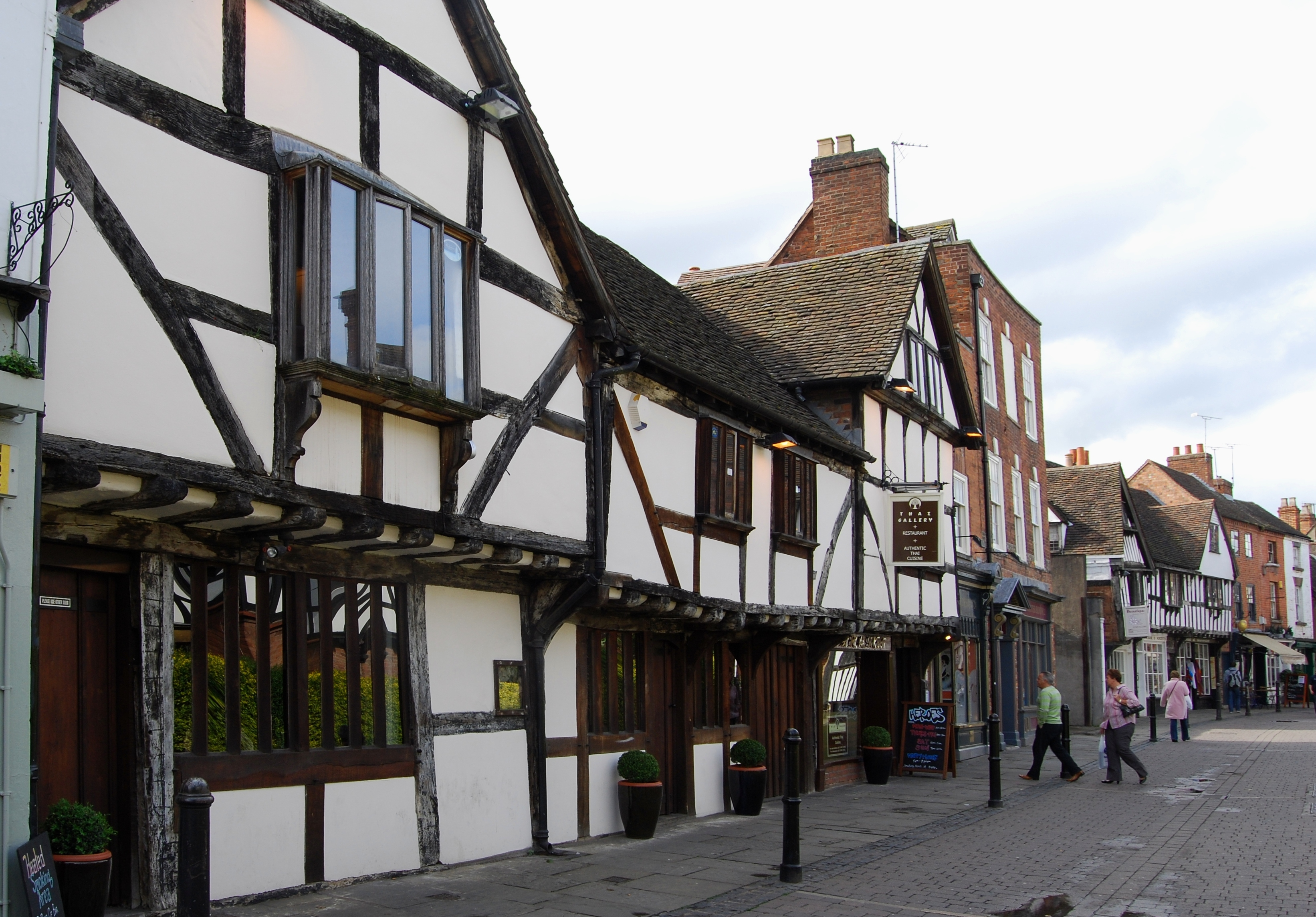 Some of several Tudor period buildings in Worcester